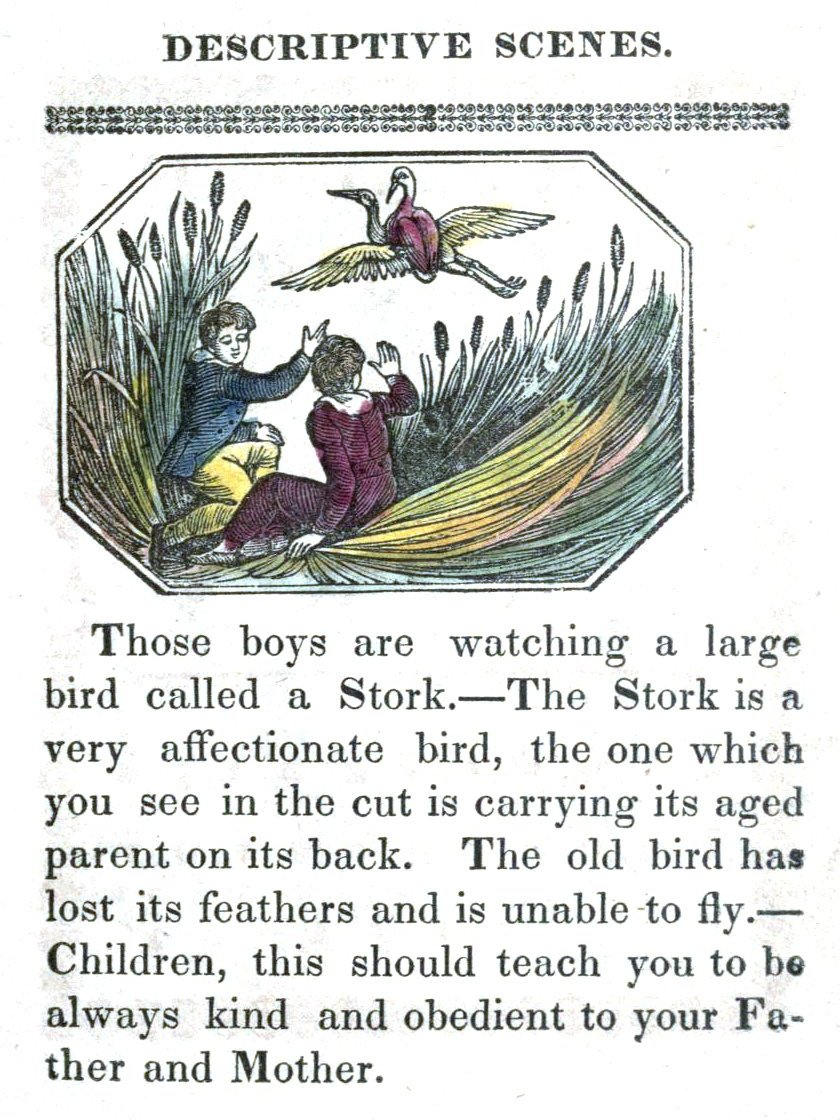 Illustration of a stork carrying aged parents in a moral education textbook for children